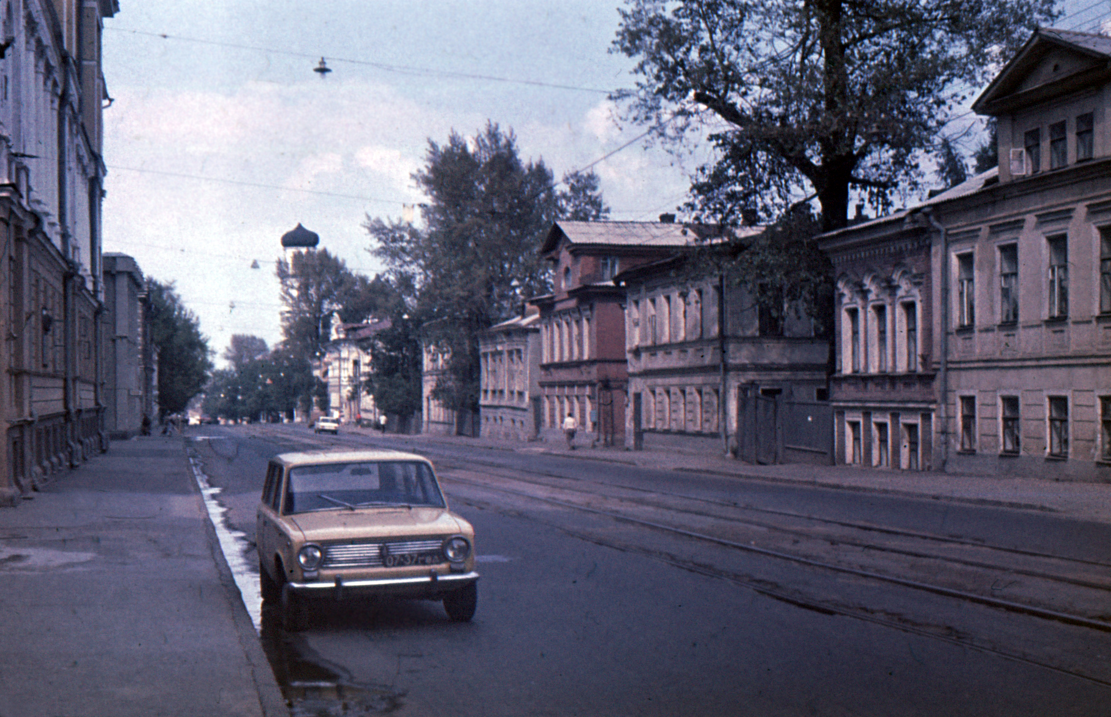 Gorky City. Krasnoflotskaya Street (now Ilyinskaya St)